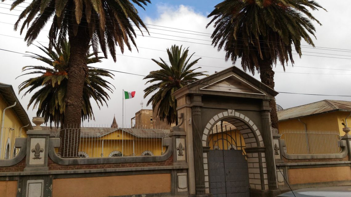 Casa degli italiani resturant Asmara, Eritrea